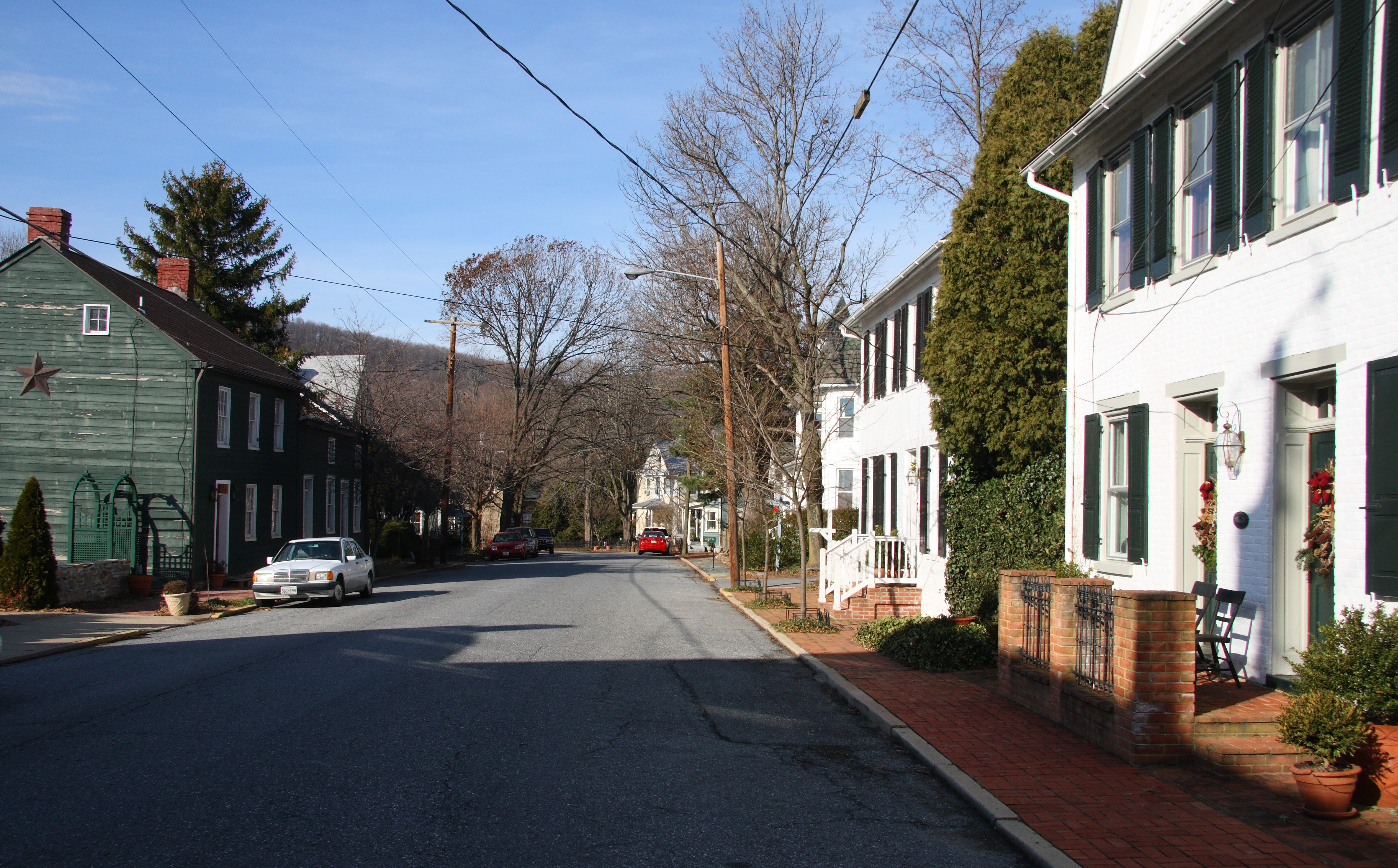 Rue à Burkittsville, Maryland, États-Unis